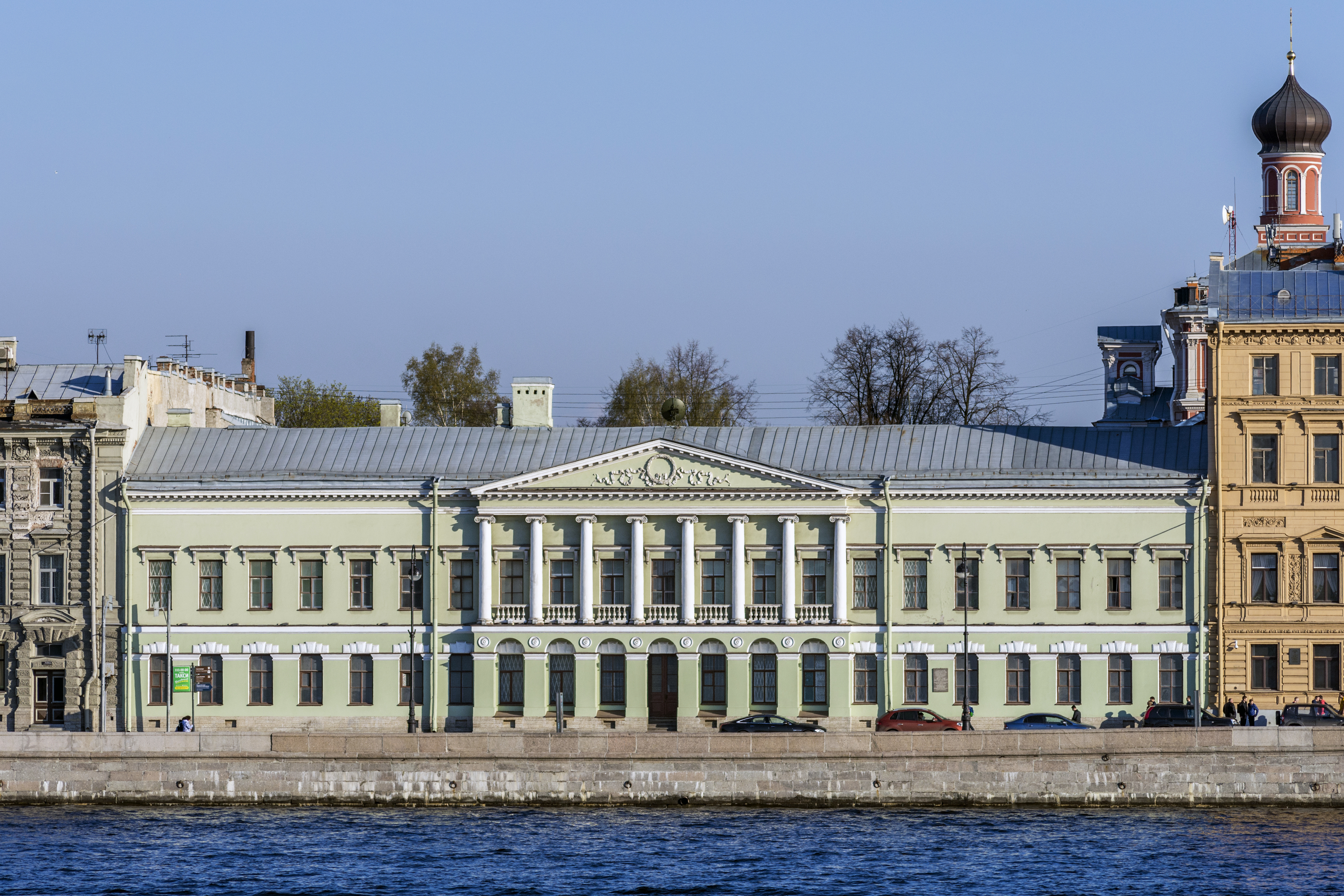 Angliyskaya Embankment in Saint Petersburg, Collegium of Foreign Affairs